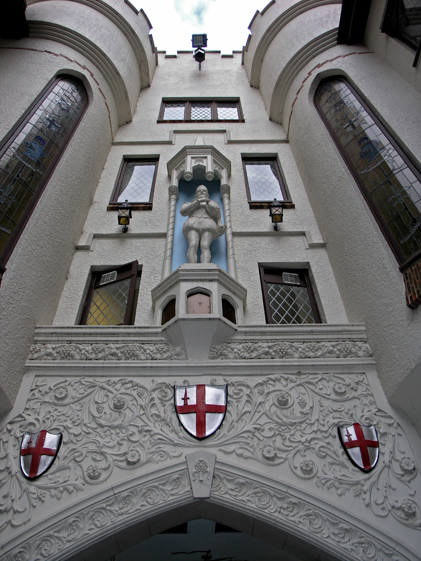 London Court Perth, WA, taken by SeanMack.